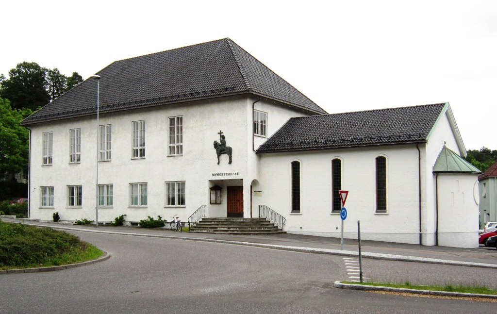 St. Olaf's chapel, Sandefjord, Norway